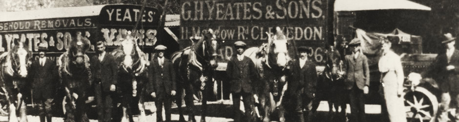 Yeates Removals was established in 1910 using horses and carts for general removals in Clevedon, Somerset UK and the surrounding areas. The company has always been run by family members and is currently headed up by James Griffin who took over from his father John in 2001.